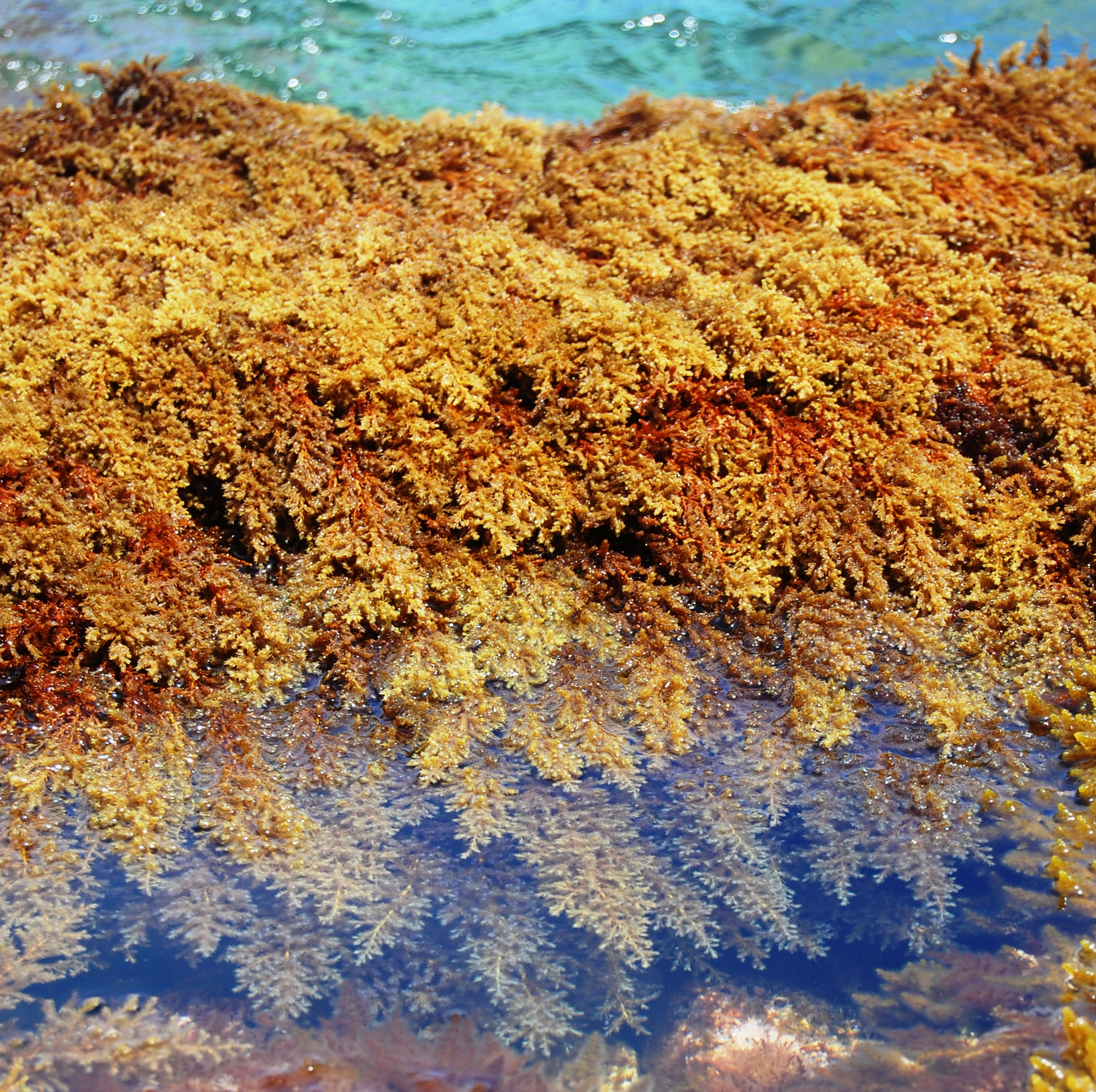 Cystoseira sp. - Mediterranean Sea